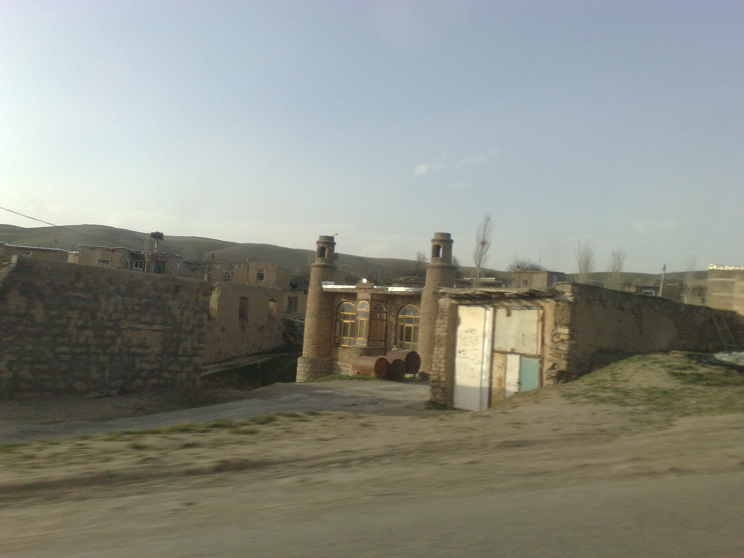 Tizawa village of Ziviyeh district of o Saqqez county in kurdistan province of Iran.